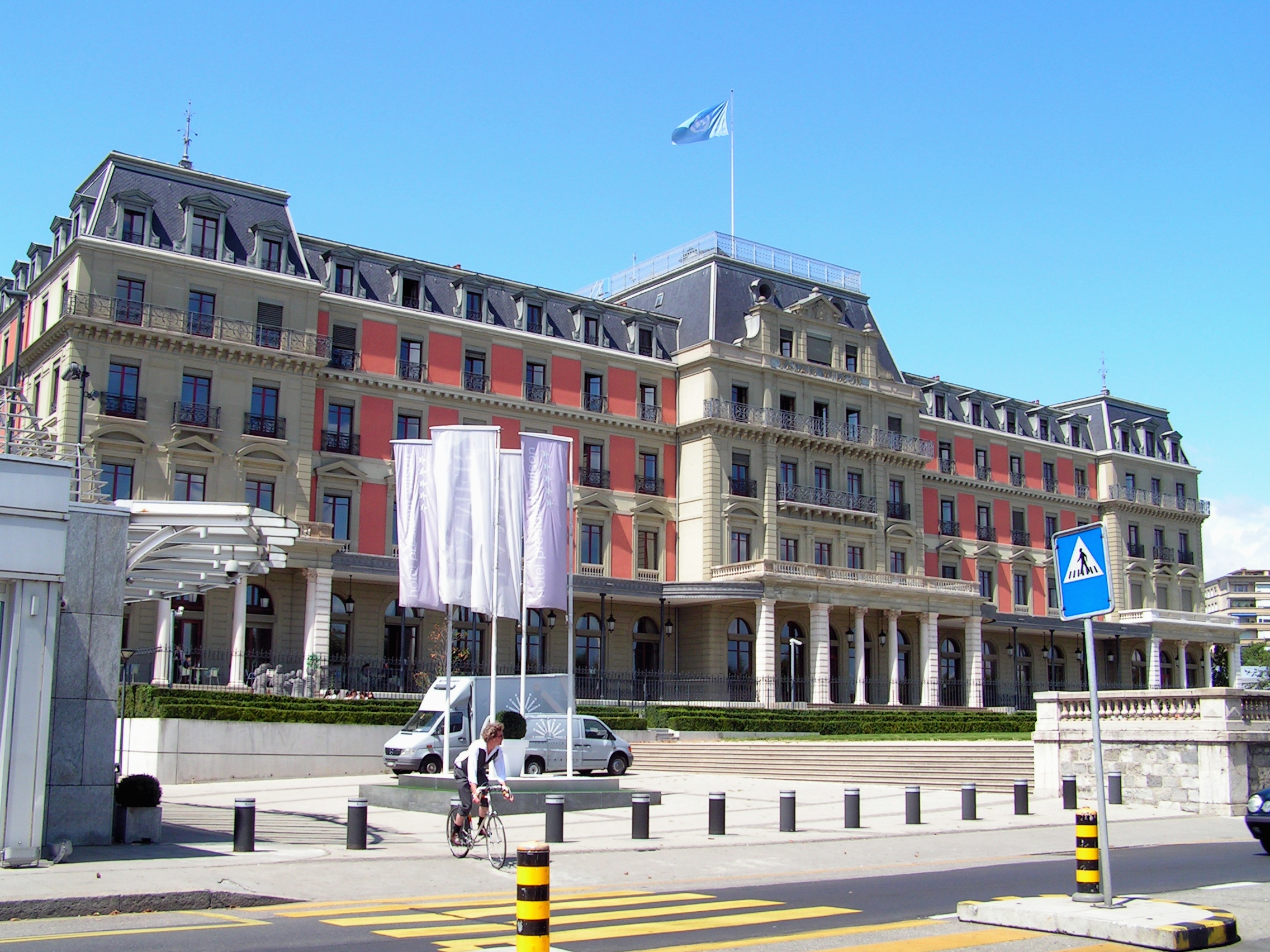 Quai Wilson 51, 53, Genève. Palais Wilson.